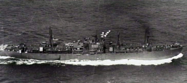 Aerial starboard side view of the American Liberty ship SS Harrison Gray Otis. She was commissioned on 17 January 1943 and was heavily damaged by an Italian limpet mine off Gibraltar on 4 August 1943. Two of the crew died and the ship had to be scrapped.